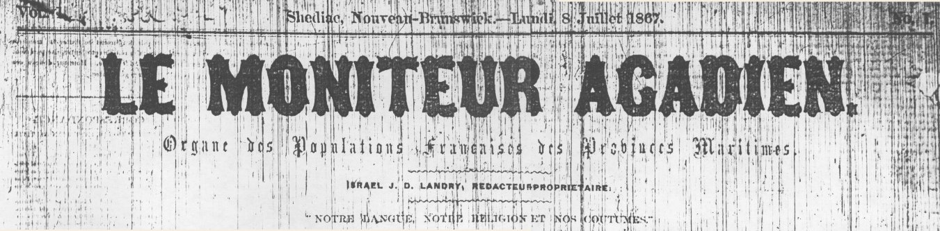 The first number of Le Moniteur acadien newspaper.